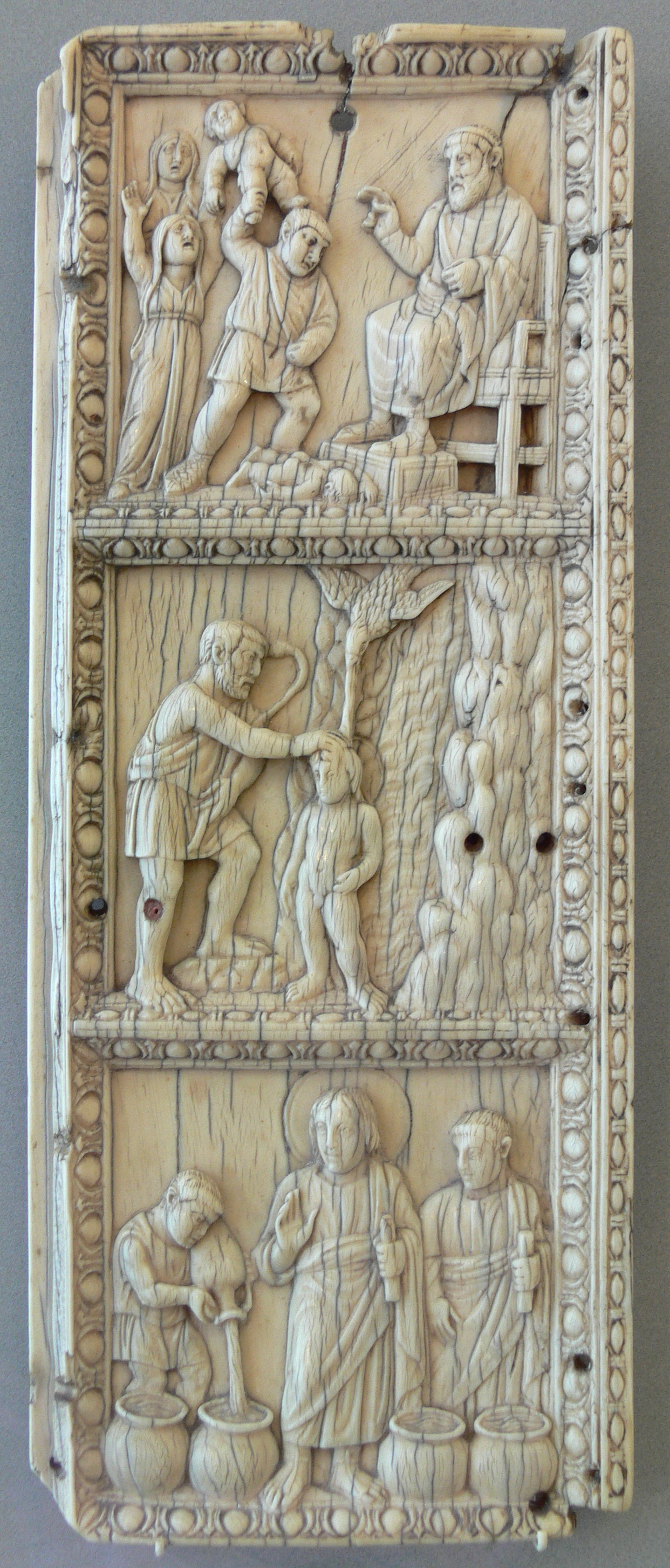 Relief panel with scenes from the life of Christ (Massacre of the Innocents; Baptism of Christ; Marriage at Cana); Ivory; Rome or Milan, 1st third of 5th century AD. Museum für Byzantinische Kunst (Inv. no. 2719; acquired in 1902; Mallet collection), Bode-Museum, Berlin.